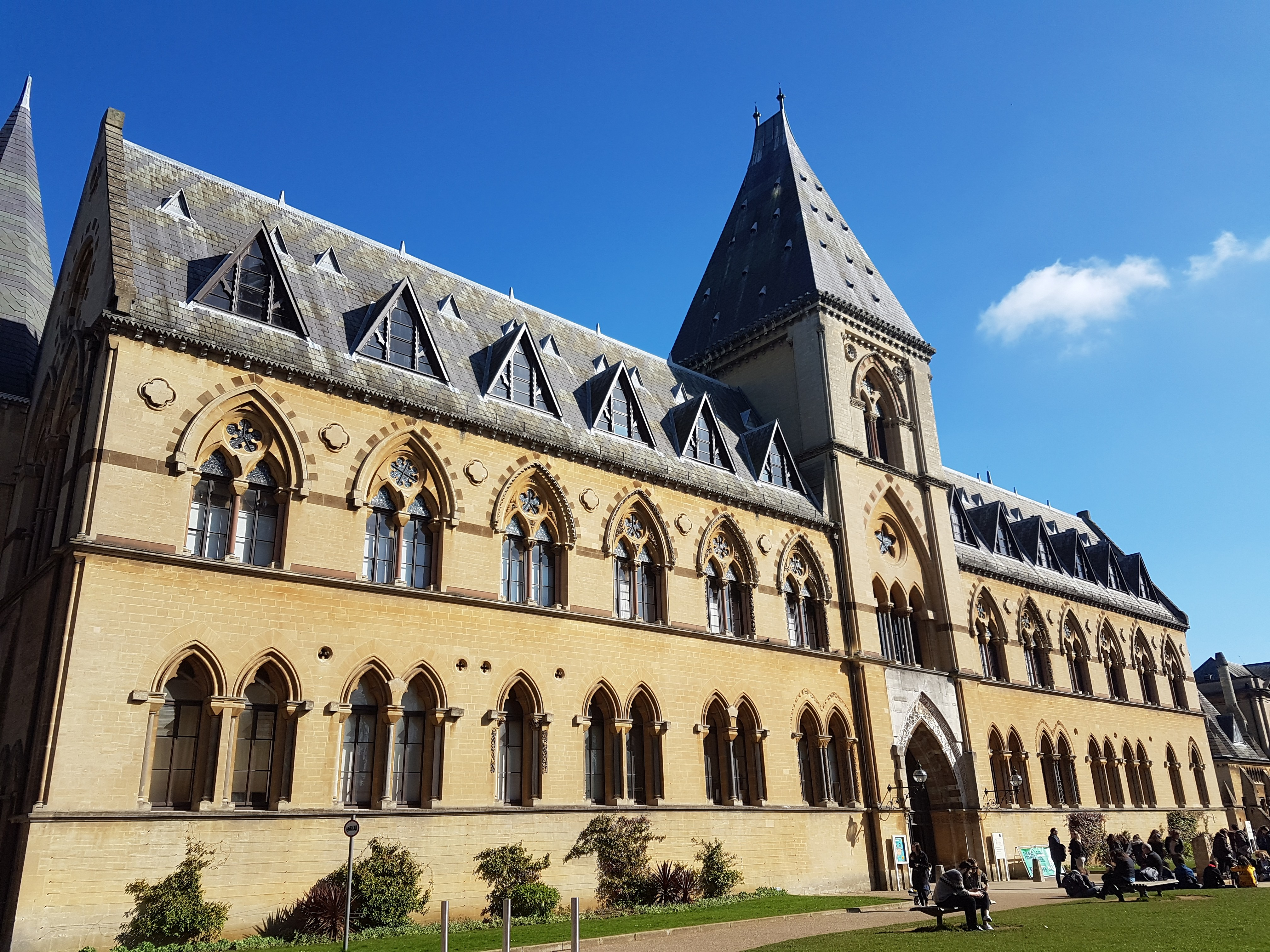 Natural History Museum of University of Oxford